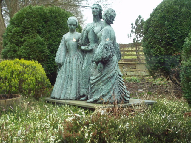 Bronte Sisters statue, Haworth Parsonage. Taken through the window of the museum shop - sorry about the reflections on the glass!